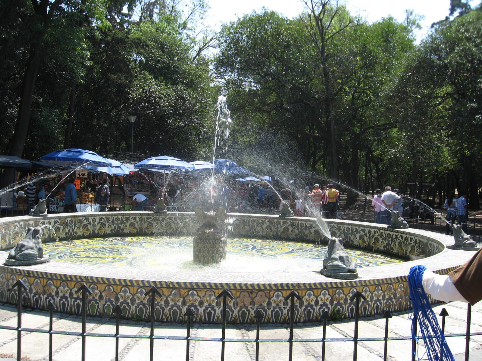 The Frog Fountain in Chapultepec Park in Mexico City